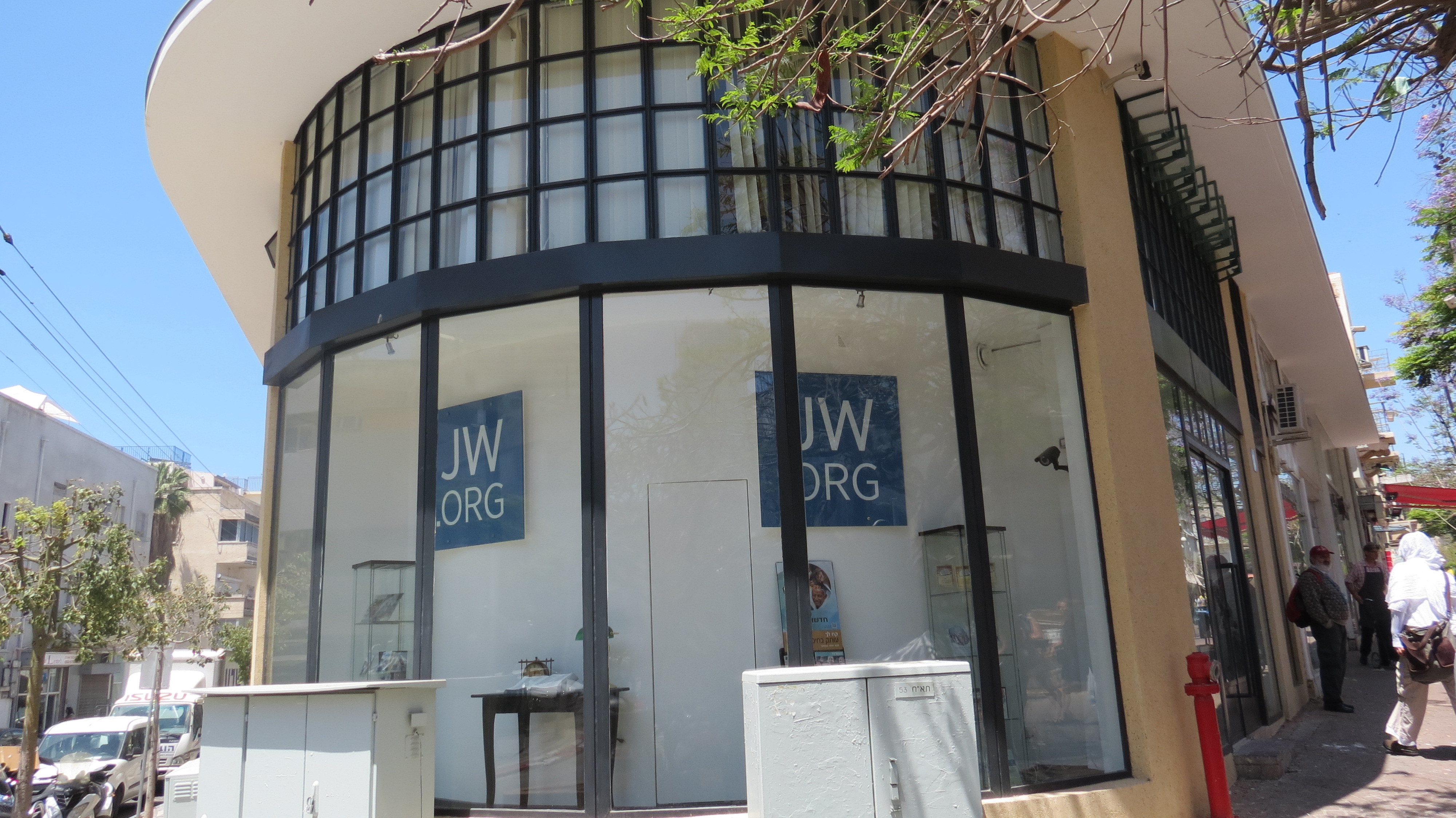 Watchtower Association of Israel, RA, Shefer Street 23